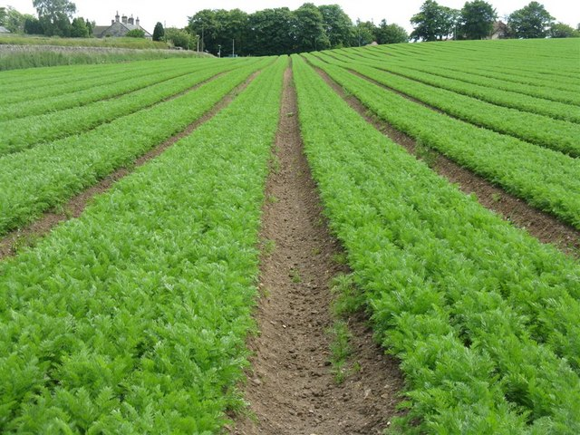 Carrot crop at Lundin Links